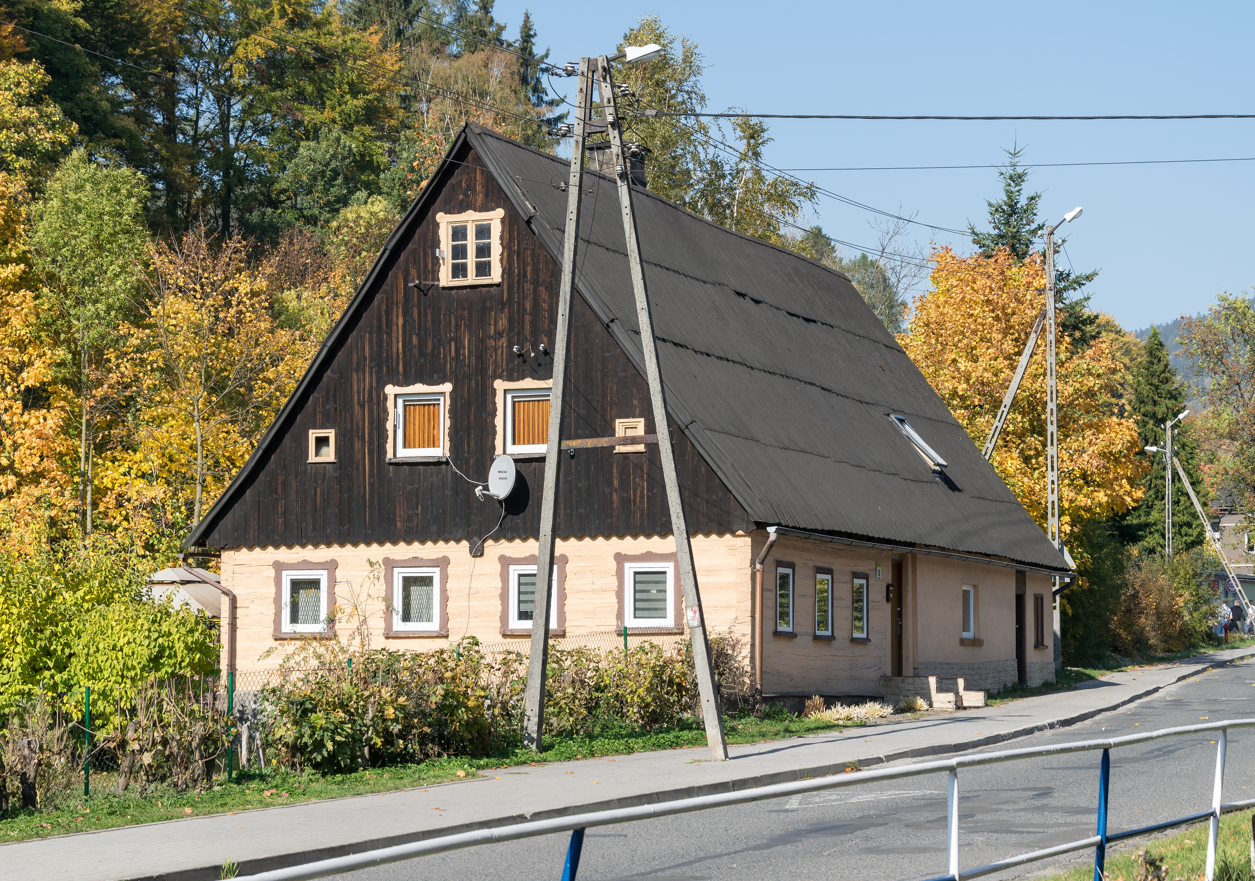 90 Główna Street in Jugów